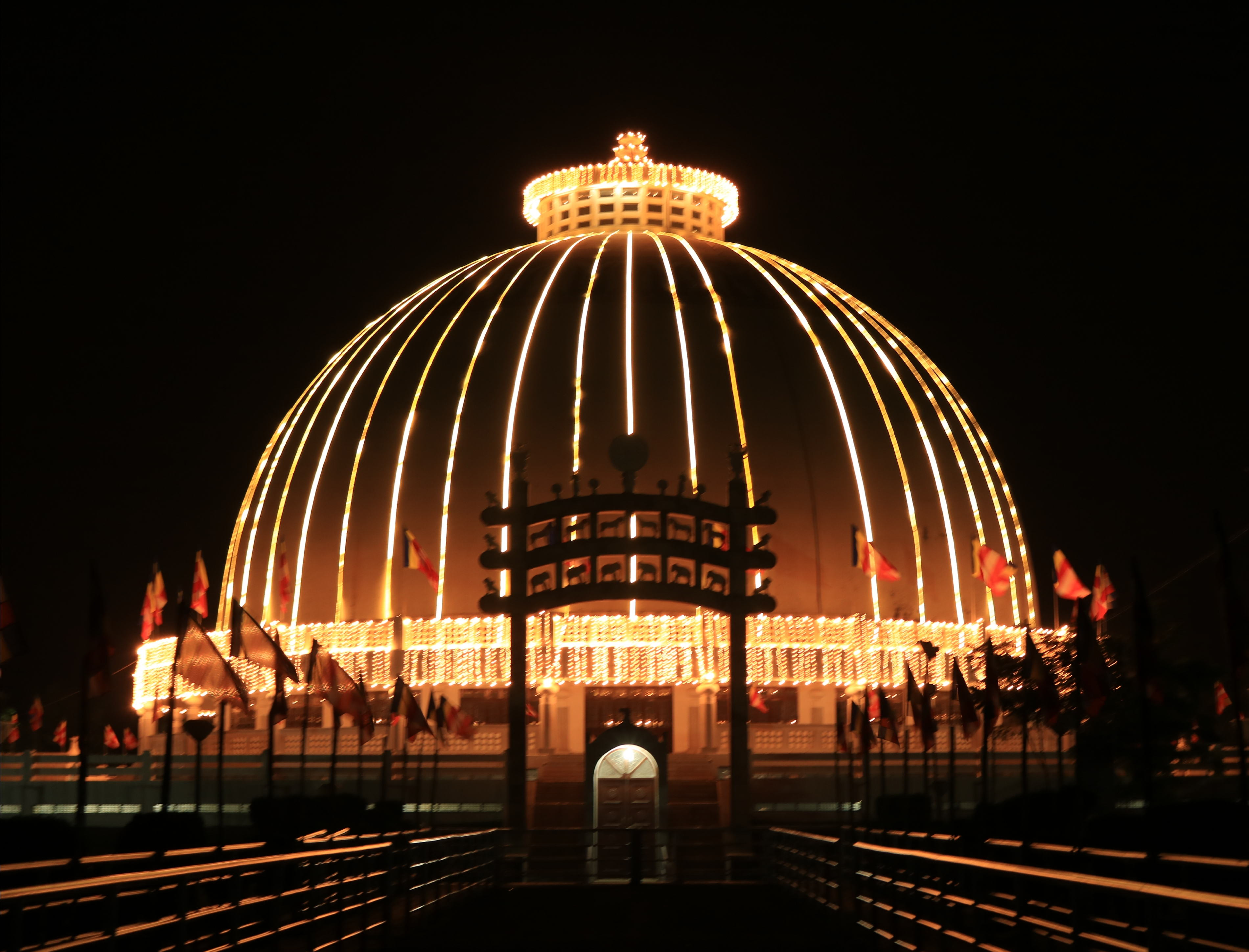 Deekshabhoomi, Monument of Buddhism